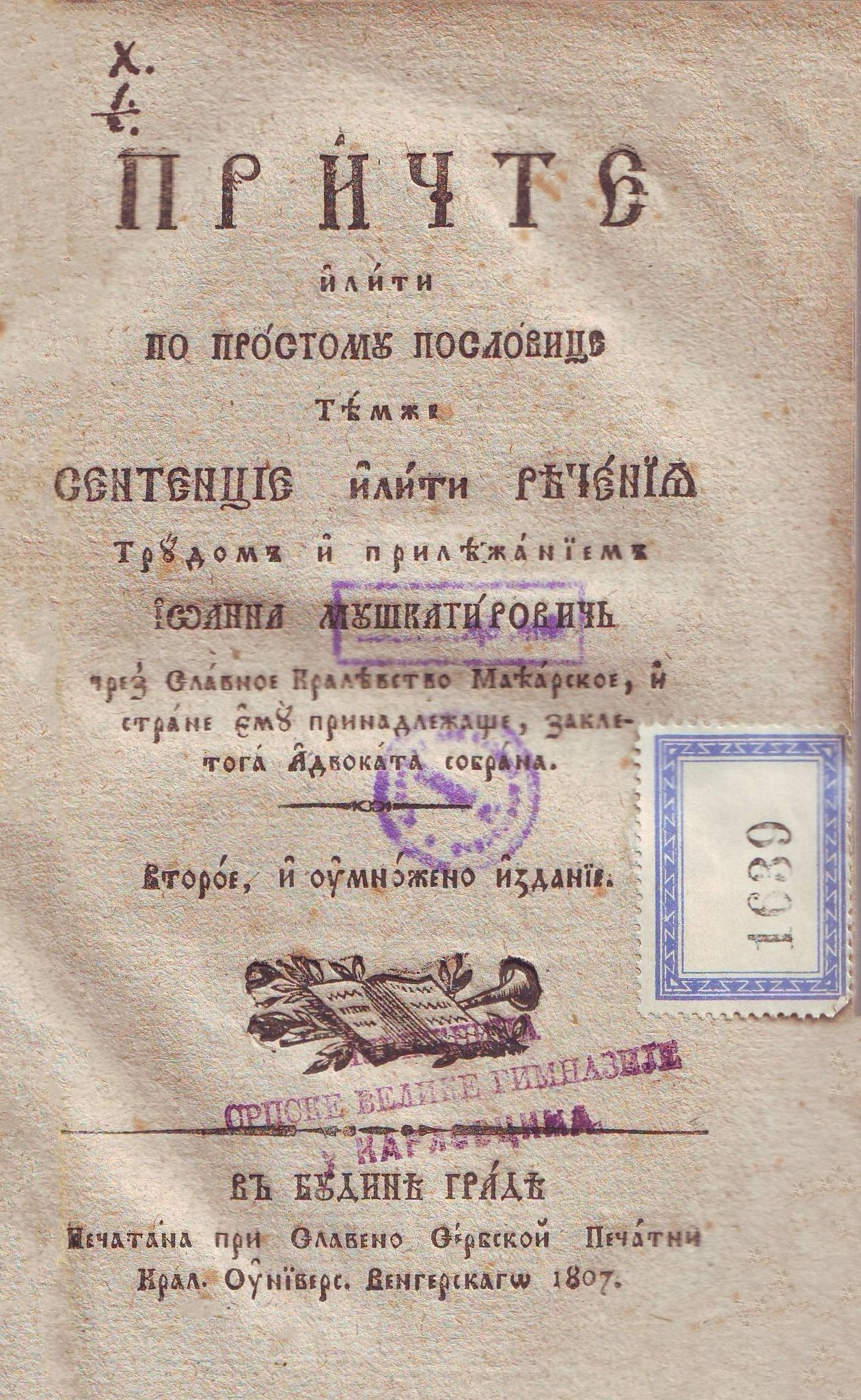 Cover of Pričte iliti po prostomu poslovice (1807) by Jovan Muškatirović. Srpski (latinica): Naslovna strana zbirke poslovica Pričte iliti po prostomu poslovice (1807) Jovana Muškatirovića.